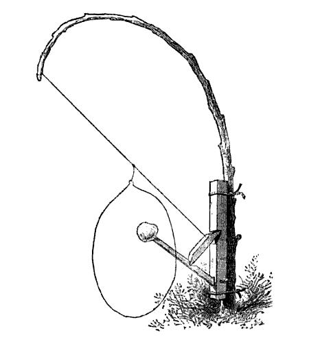 19th century knowledge traps and snares portable snare